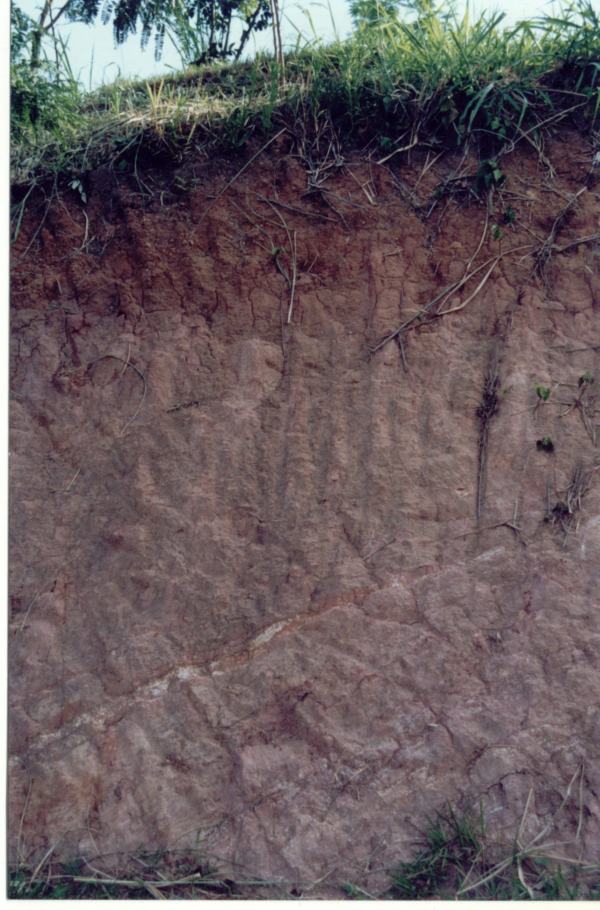 Regolithic soil from granulite rock. It is very argillaceos and preserves the original foliation and other structures of the rock massif. 3 meters high. Rock related: Granulite rock Date:31-03-2006 Local: Rio de Janeiro city, Leblon Park, Brazil Author:Eurico Zimbres Free for all use